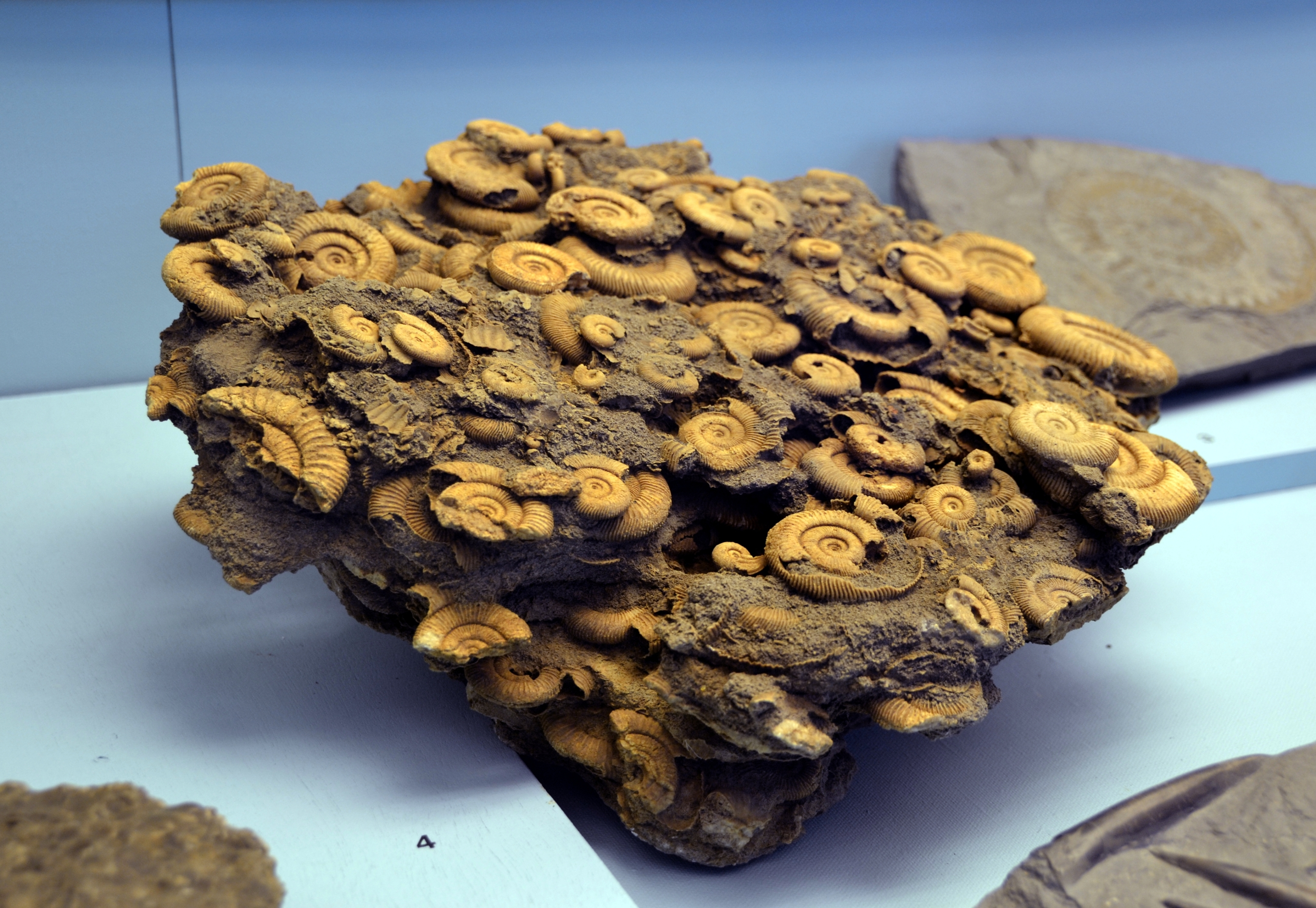 A cluster of Dactylioceras ammonites from Schlaufhausen, displayed in the Naturkundemuseum Ostbayern in Regensburg, Germany.